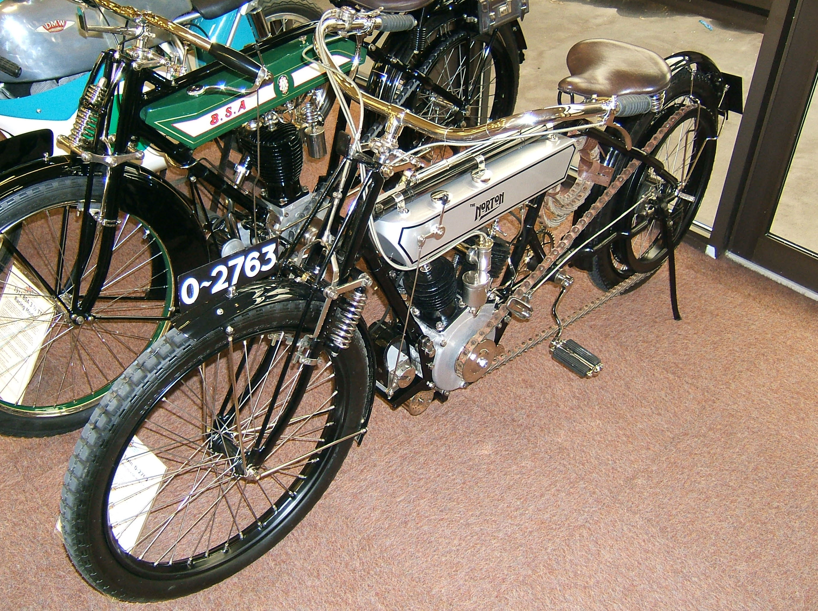 A 1907 Norton Twin motorcycle. The actual motorbike which won the very first Isle of Man TT race. In the National Motorcycle Museum, Birmingham, UK.